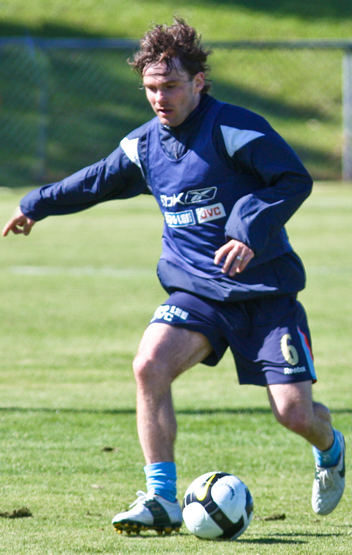 Karol Kisel at the first pre-season training session for Sydney FC in the 2009-2010 season.